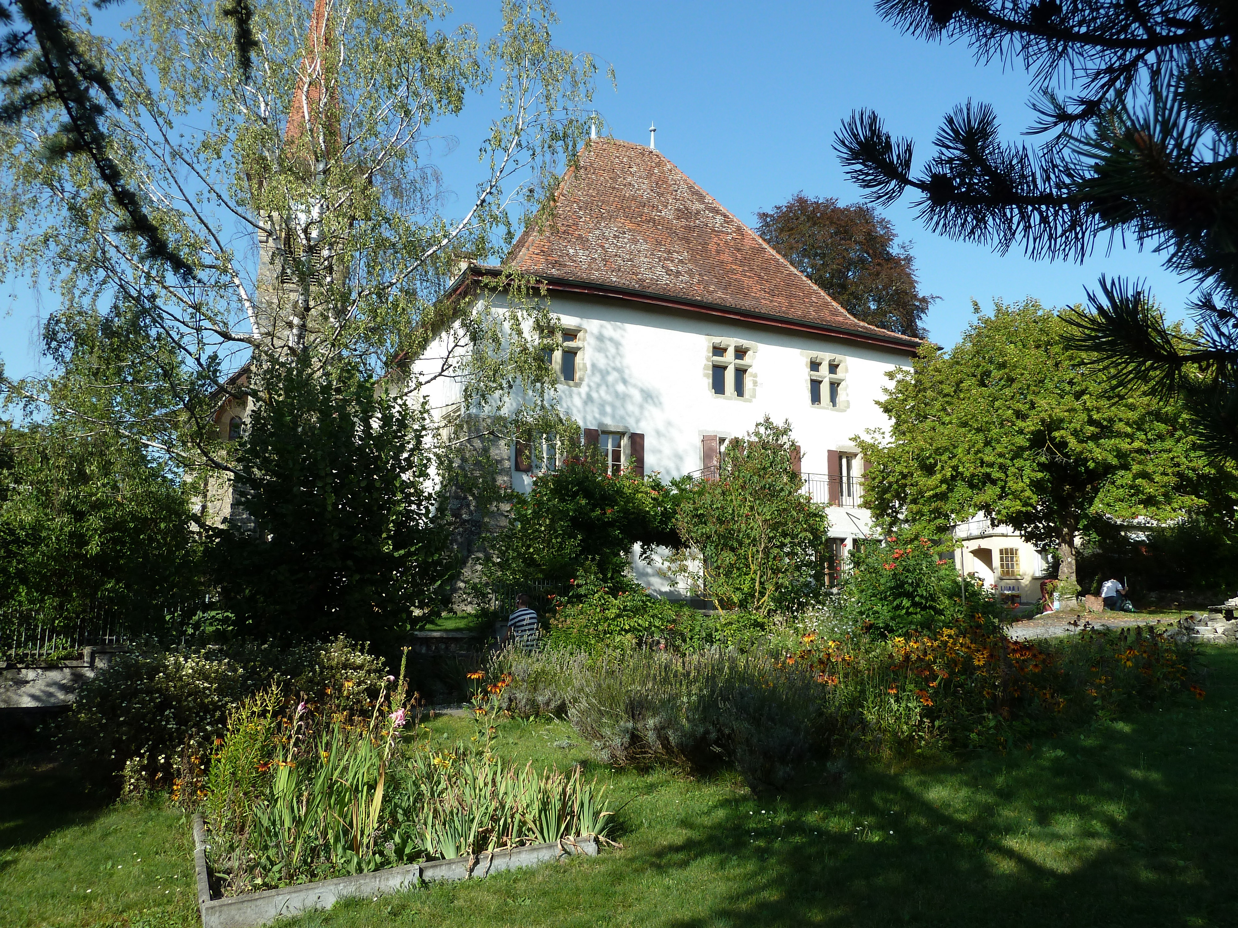 View of the south façade of the Château de Donneloye